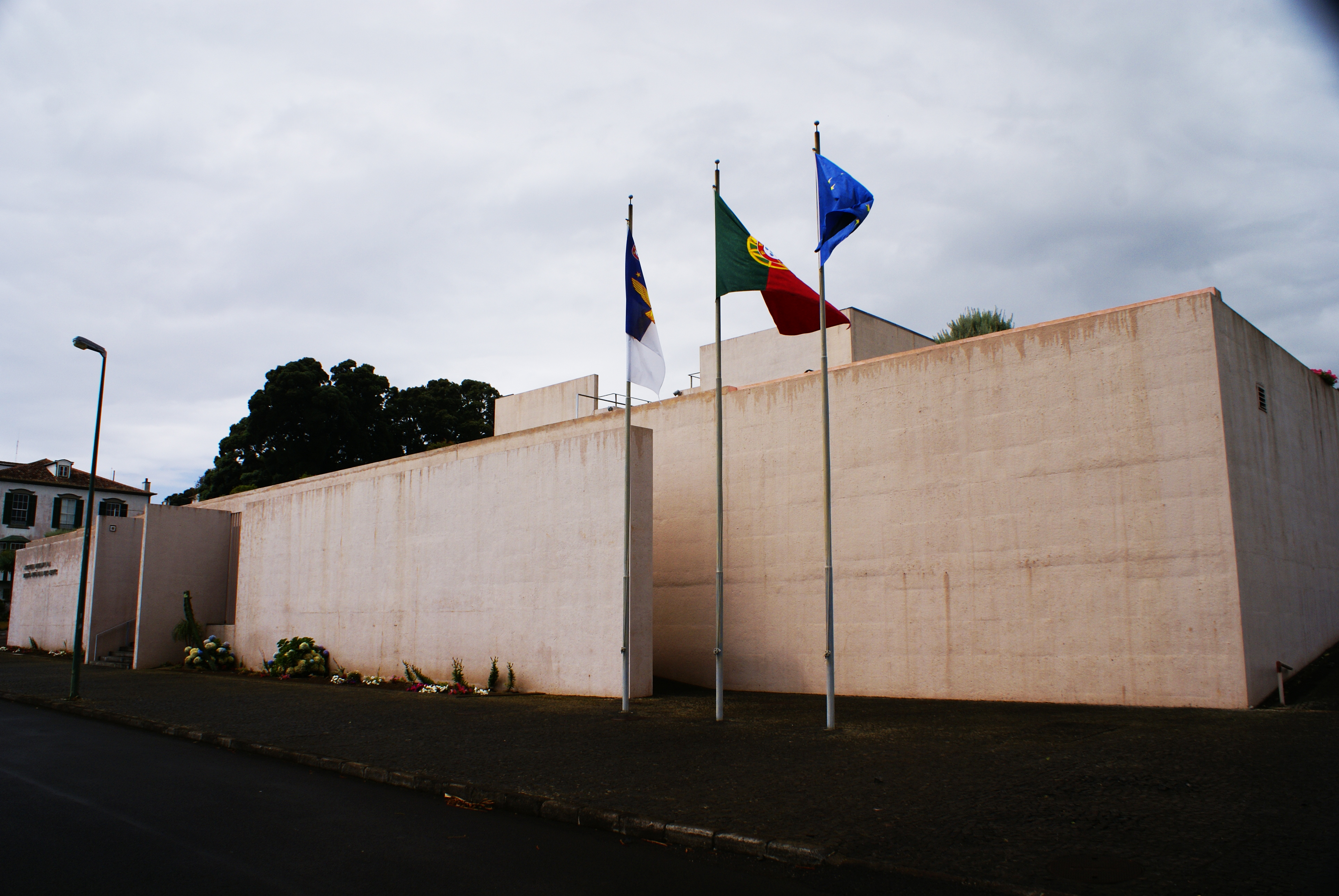 The austere façade of the Legislative Assembly building of the Autonomous Region of the Azores, Horta, Faial (Azores), Portugal